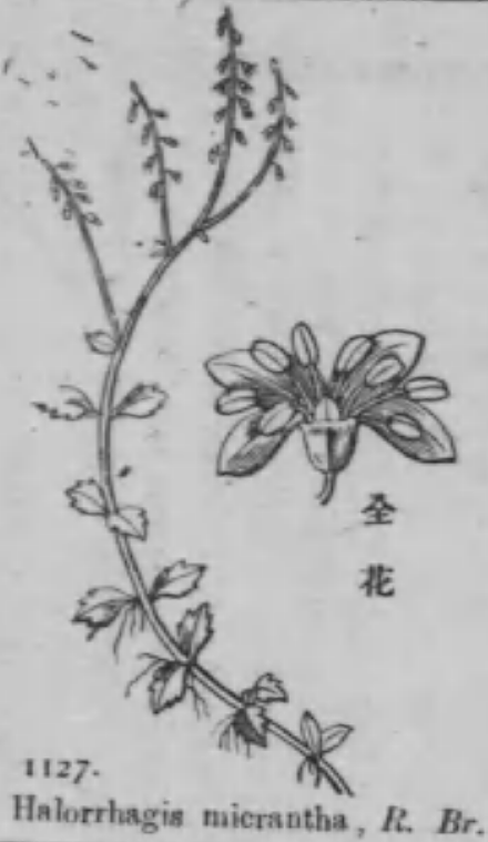 Haloragis micrantha